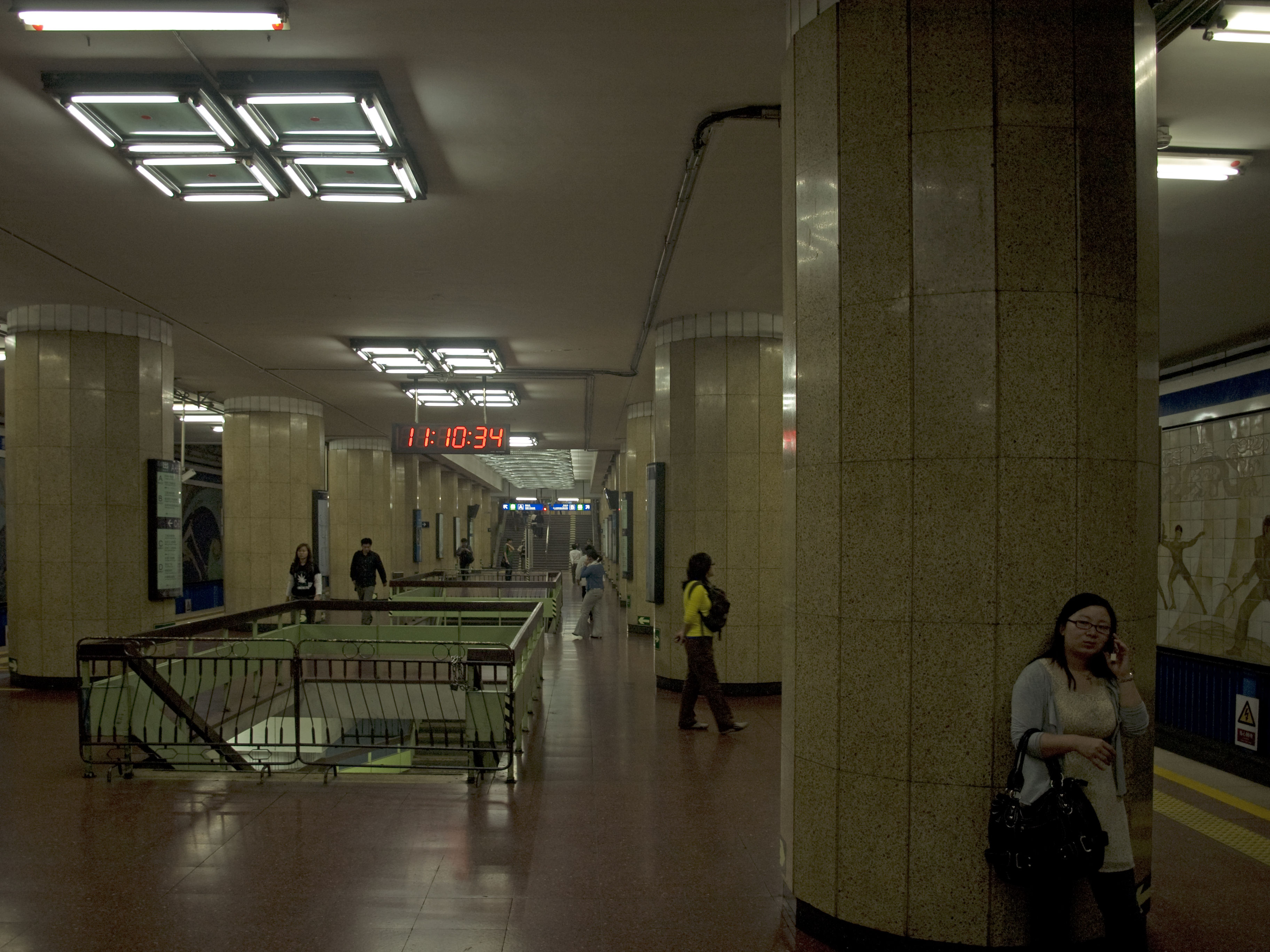 Dongsishitiao station, Beijing Subway